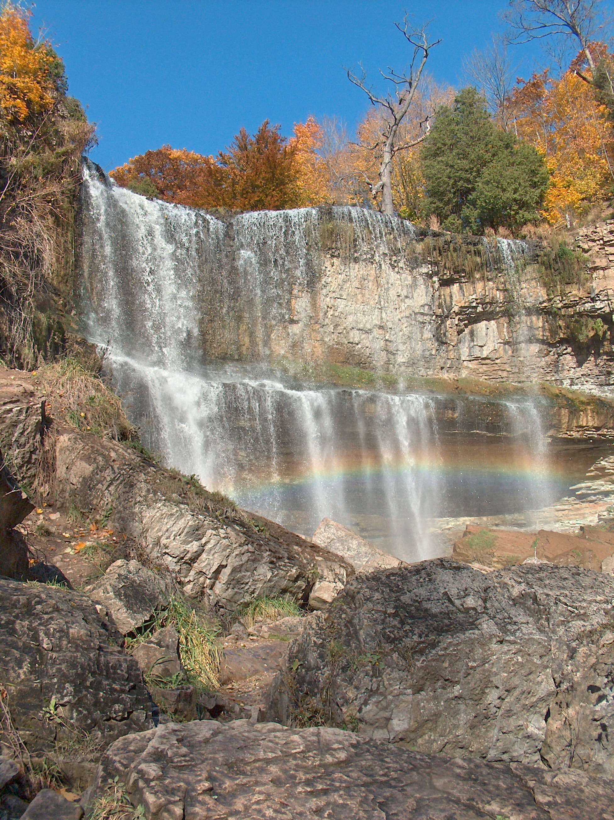 Taken Nov. 4th 2005 at Webster's Falls close to Dundas.